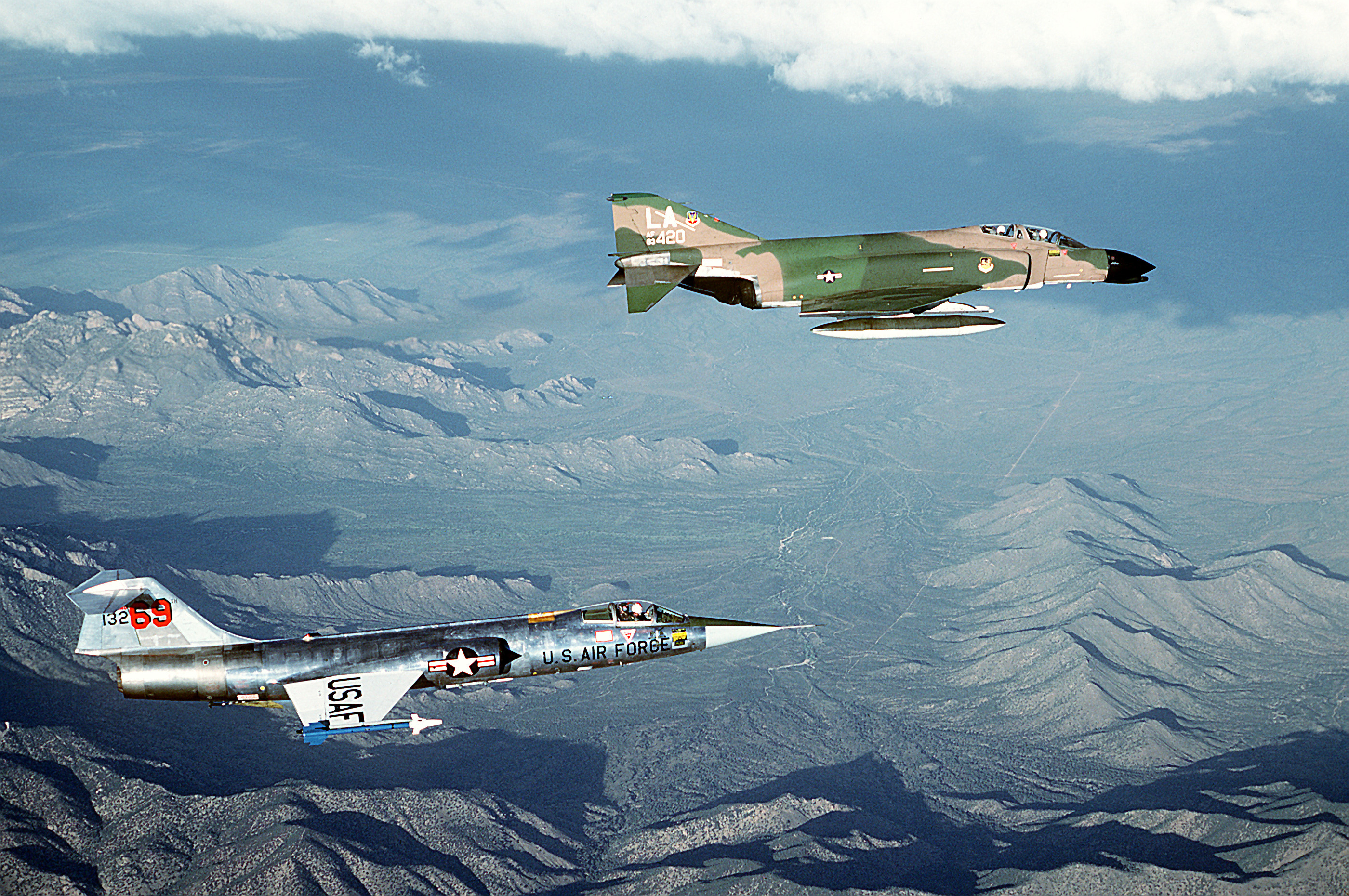 A U.S. Air Force McDonnell Douglas F-4C-15-MC Phantom II (s/n 63-7420), top, and a German Lockheed F-104G Starfighter (63-13269) aircraft on a training mission. The aircraft were, respectively, from the 310th and 69th Tactical Fighter Training Squadrons, 58th Tactical Training Wing, 12th Air Force, at Luke Air Force Base, Arizona (USA). The F-104G is carrying two training AIM-9J Sidewinder missiles on the wing tips. The F-4C 63-7420 was retired to the AMARC as FP0295 on 23 August 1989. The F-104G 63-13269 had been originally licence-built by Fokker in the Netherlands for the German Luftwaffe (Air Force), but operated at Luke AFB in USAF colours to train German F-104 pilots. It was later sold to Taiwan.